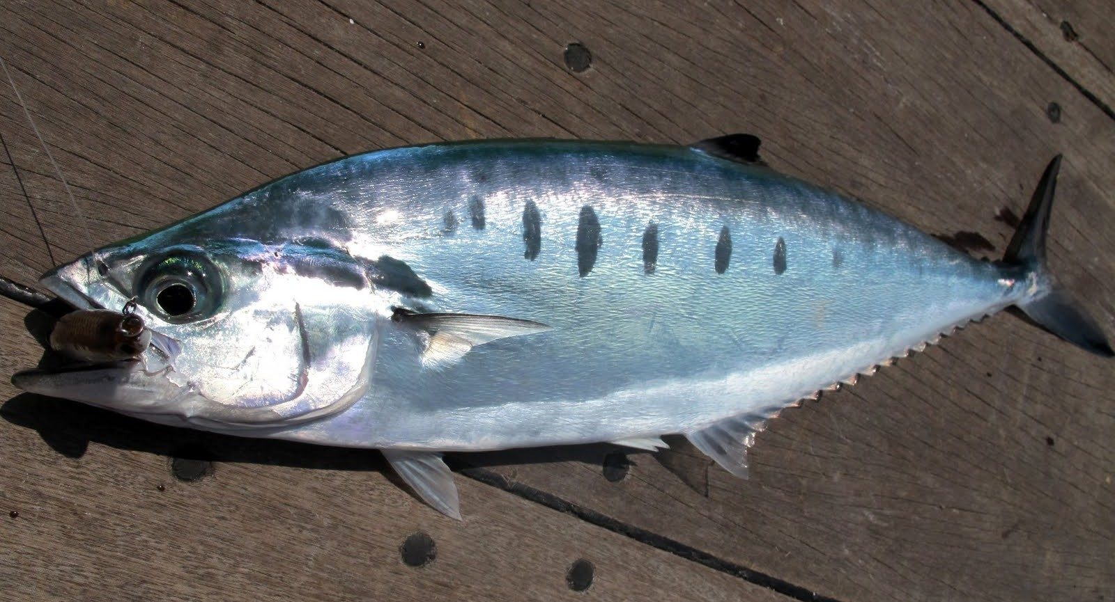 Scomberoides tol taken from Port Douglas